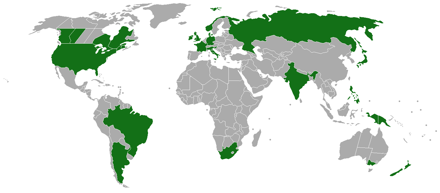 Approximate range map of Panaeolus cinctulus (previously called Panaeolus subbalteatus).